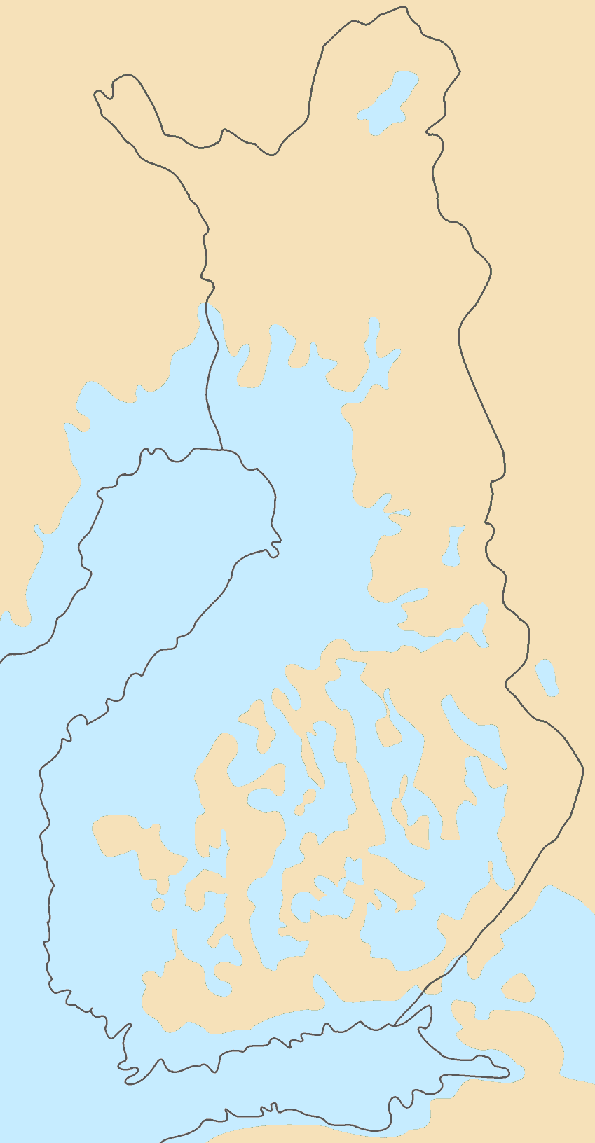 The coastline of Finland after the last ice age, circa 11,000 years ago.